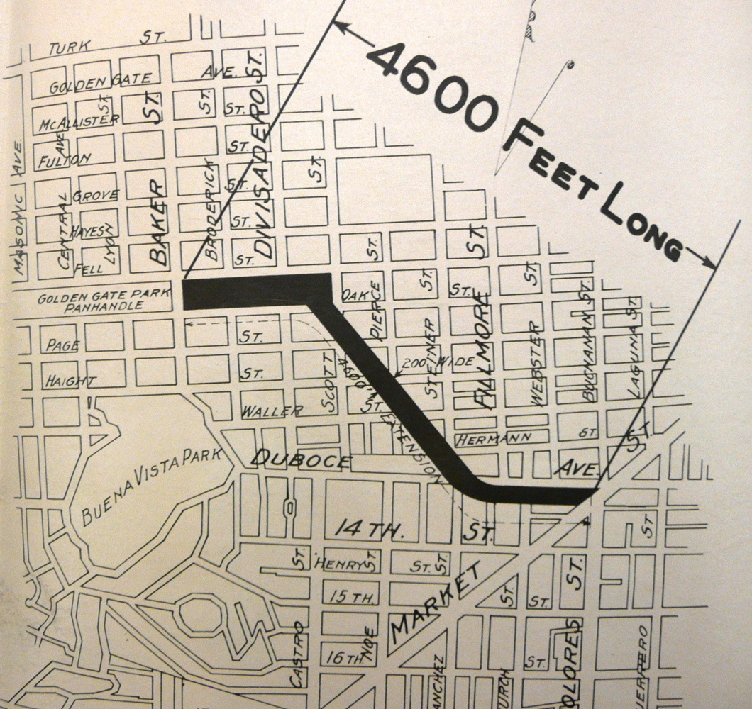 This map is a portion of a larger map by San Francisco City Engineer Michael O'Shaughnessy, published May 1928 proposing a route for an extension of the public park in San Francisco known as the Panhandle Park.